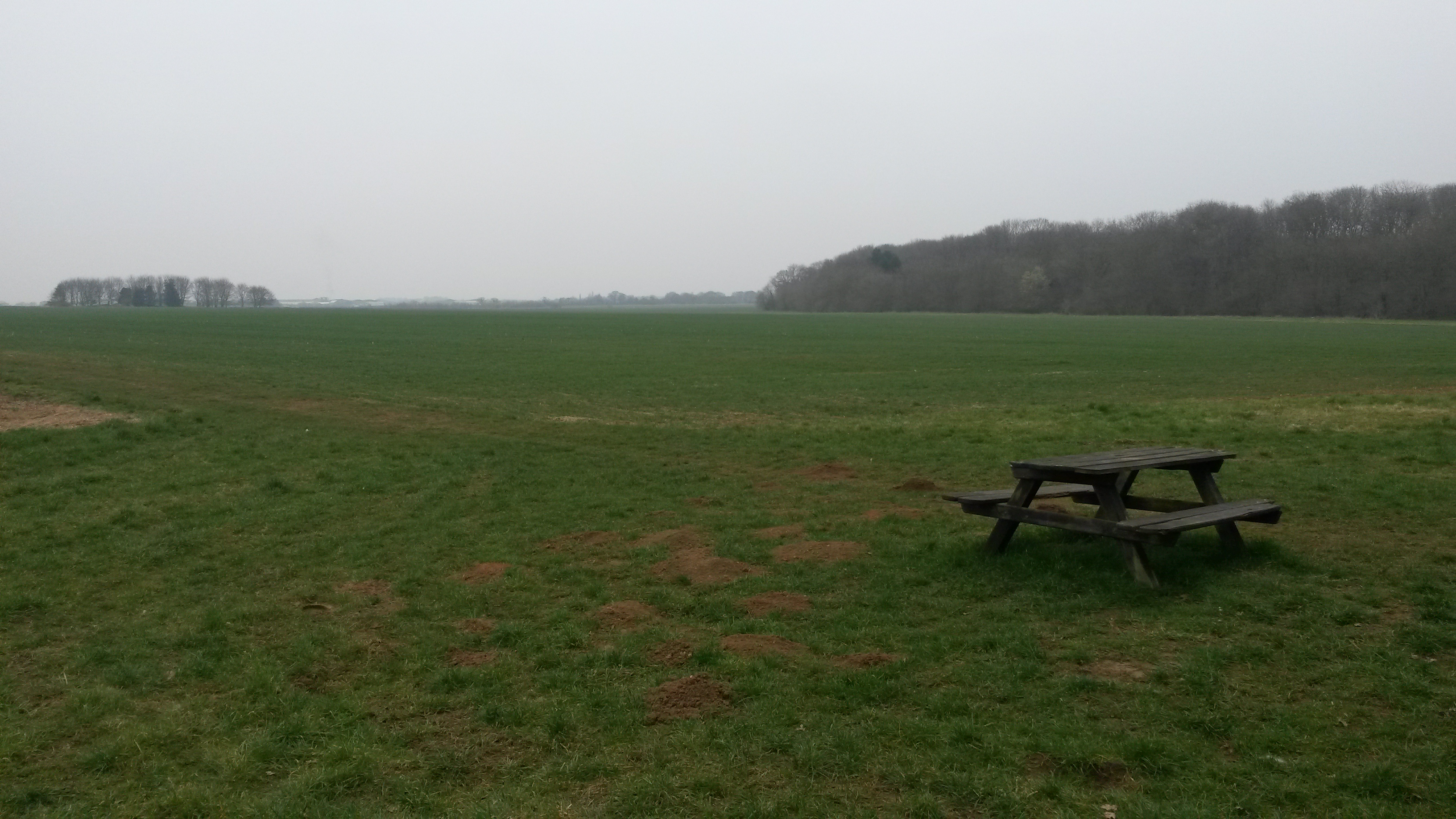 Lound Field, Skellingthorpe.Located on the edge of Old Wood.